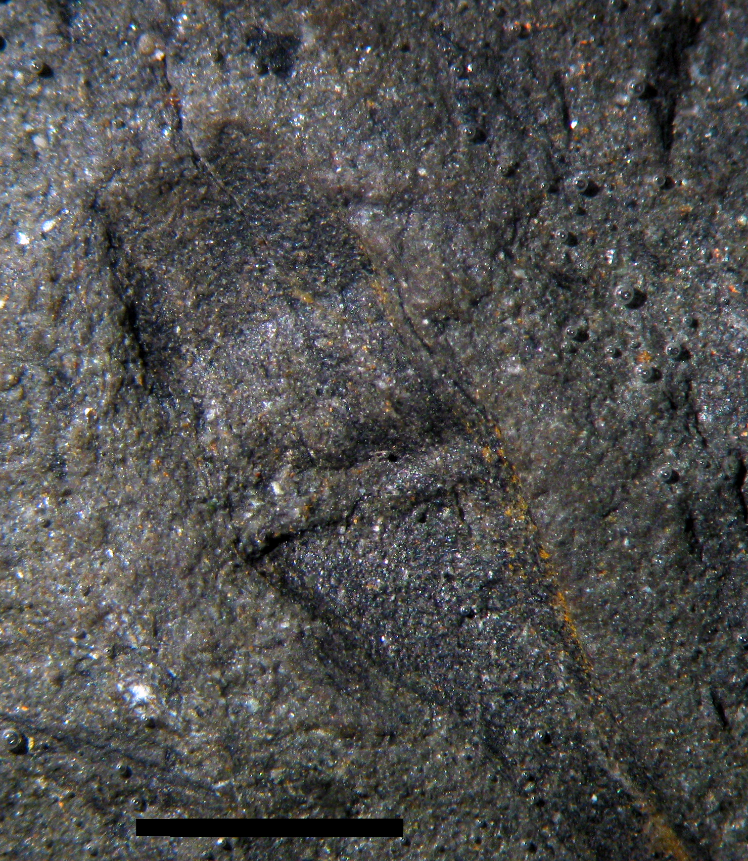 The photo shows the type material of the fossil Sporogonites excellens, described by Joaquín Frenguelli from the Sierra de los Paramillos de Tontal in the province of San Juan (Argentina). Scale: 5 mm